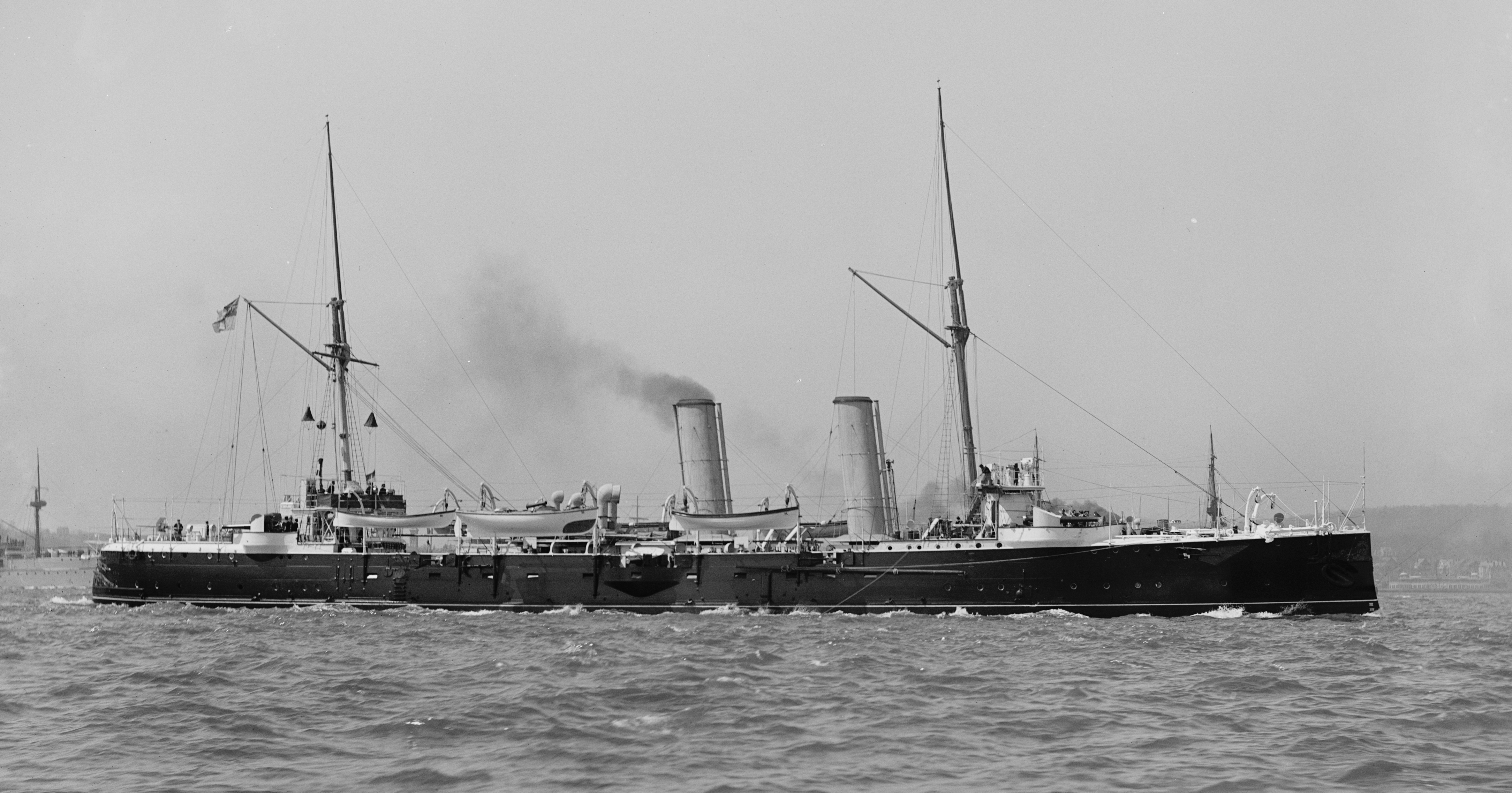 British cruiser HMS Magicienne. Original image cropped to focus on ship.